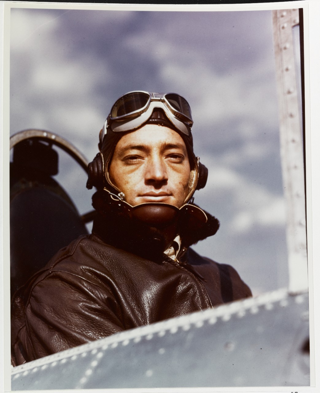 Major John L. Smith, USMC in an aircraft cockpit at Naval Air Station, Anacostia, Washington D.C. in November 1942. He received the Medal of Honor for shooting down 16 Japanese aircraft in the Solomons in August-September 1942, while in command of Marine Fighting Squadron Two Hundred Twenty Three (VMF-223).